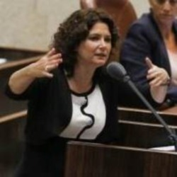 Michal Rozin - The Knesset plenum 2013